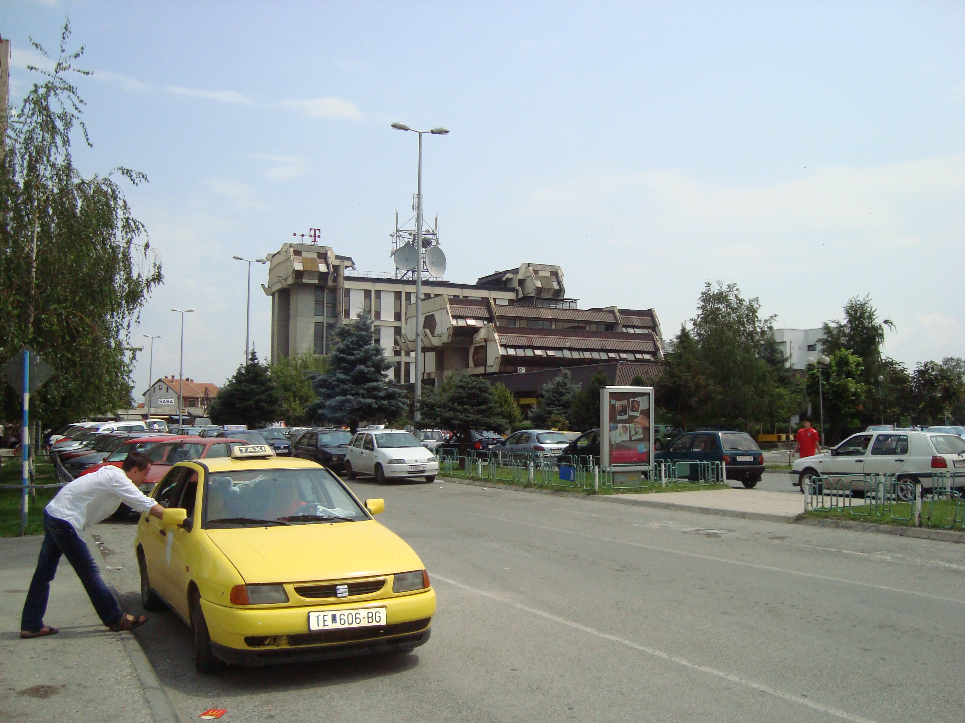 The post in Tetovo, Macedonia.